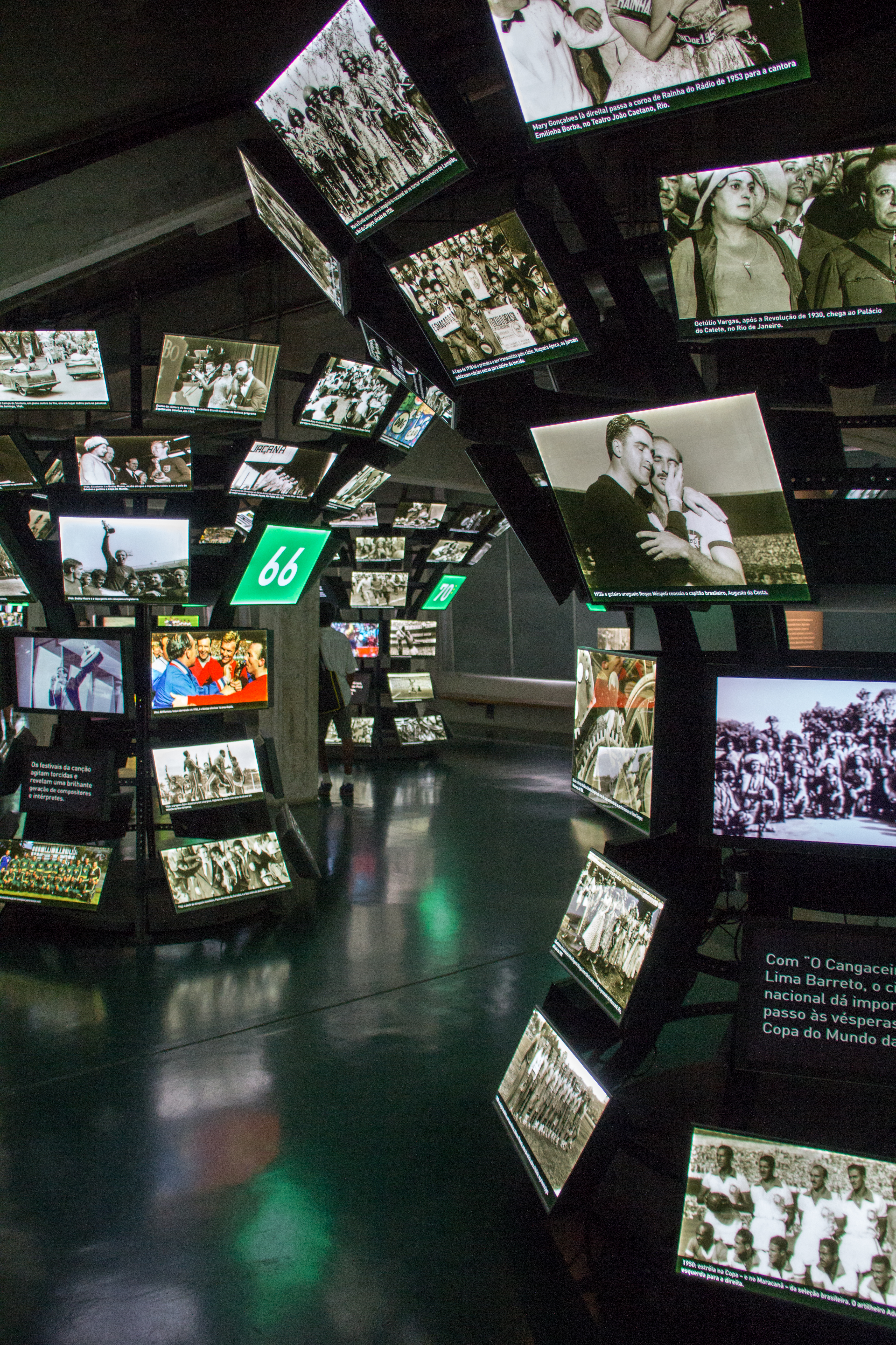 Museu do Futebol, São Paulo, Brazil